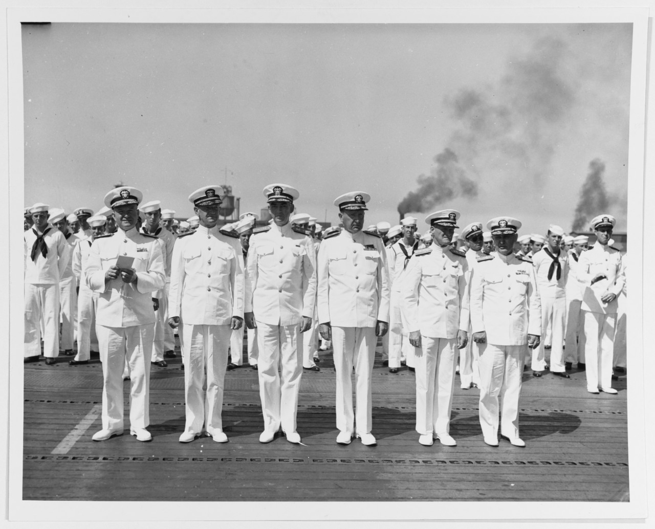 At a shipboard awards ceremony, held at Pearl Harbor on 17 June 1942. The officers are (left to right): Vice Admiral William L. Calhoun, Commander, Service Force Pacific Fleet; Rear Admiral Frank Jack Fletcher, Commander, Task Force 17; Rear Admiral Thomas C. Kinkaid, Commander, Cruiser Division 6; Rear Admiral William Ward Smith, Commander, Task Group 17.2; Rear Admiral Marc A. Mitscher; Rear Admiral Robert H. English, Commmander, Submarines Pacific Fleet. Official U.S. Navy Photograph, now in the collections of the U.S. National Archives.